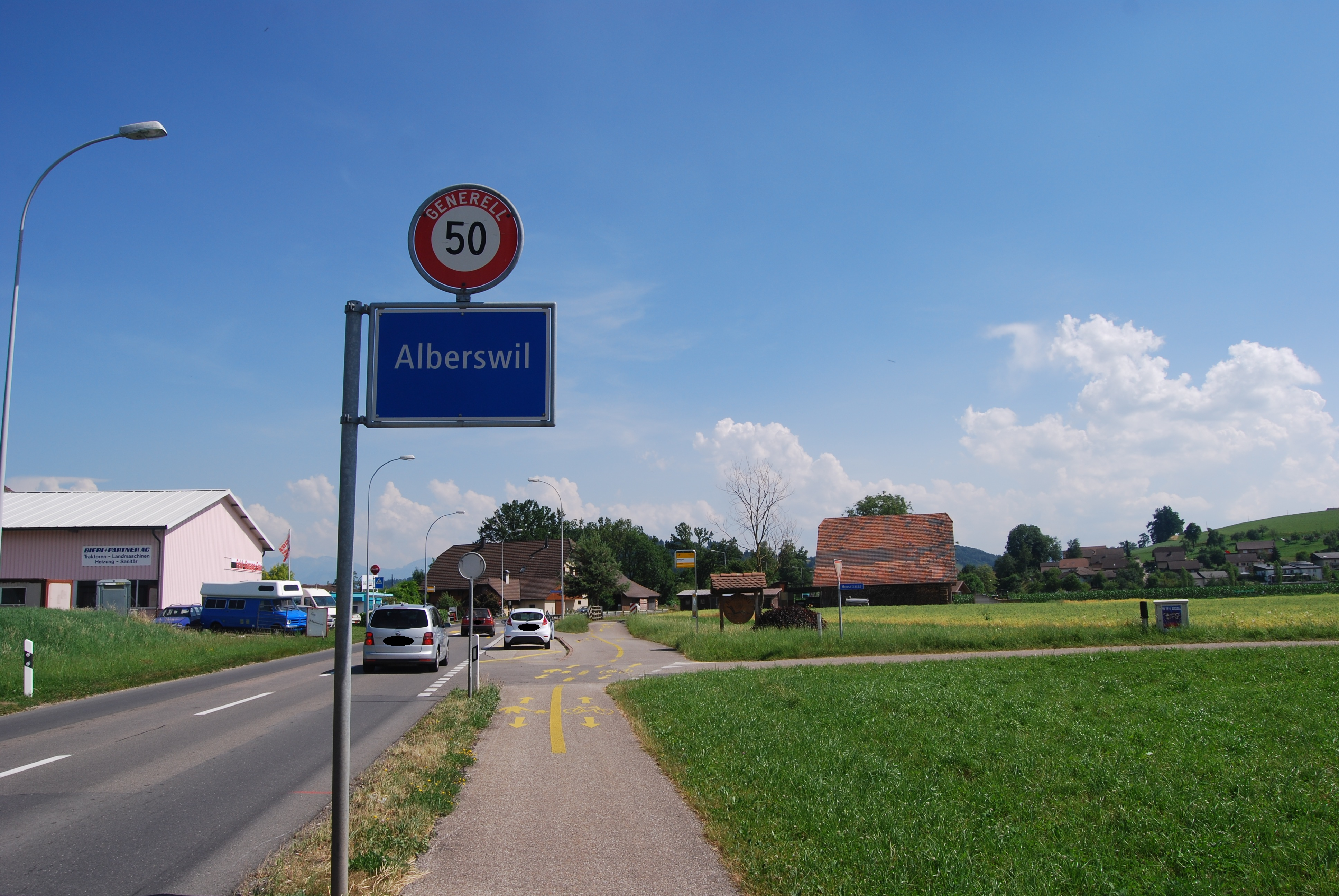 Village entry of Alberswil, canton of Luzern, SwitzerlandEsperanto: Vilaĝeniro de Alberswil, Kantono Lucerno, Svislando